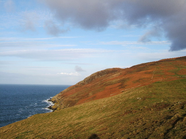 Finnarts Hill, with Loch Ryan on the left